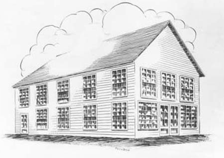 Drawing of the torn down Thomas McLeland Building